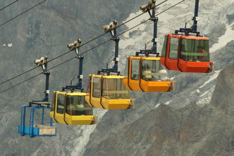 Aerial tramway in La Grave (France)